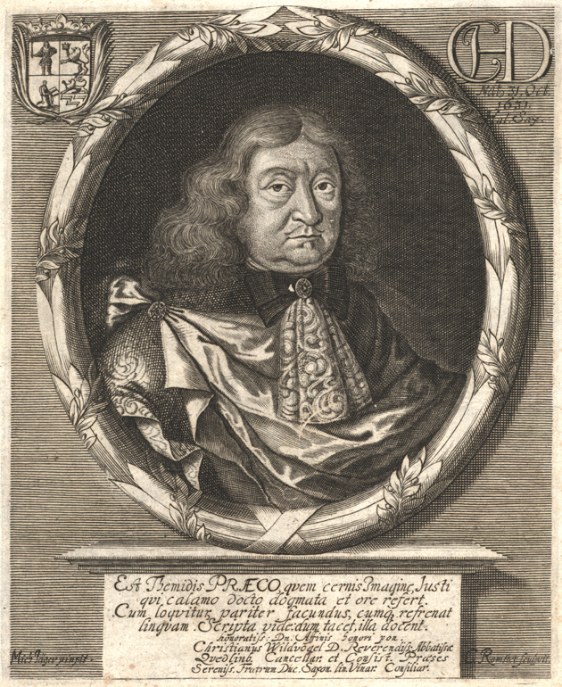 Christian Wildvogel (1644-1728) Jurist from Germany